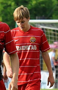 Serhiy Sydorchuk, Ukrainian footballer, after the game for FC Metalurh Zaporizhya